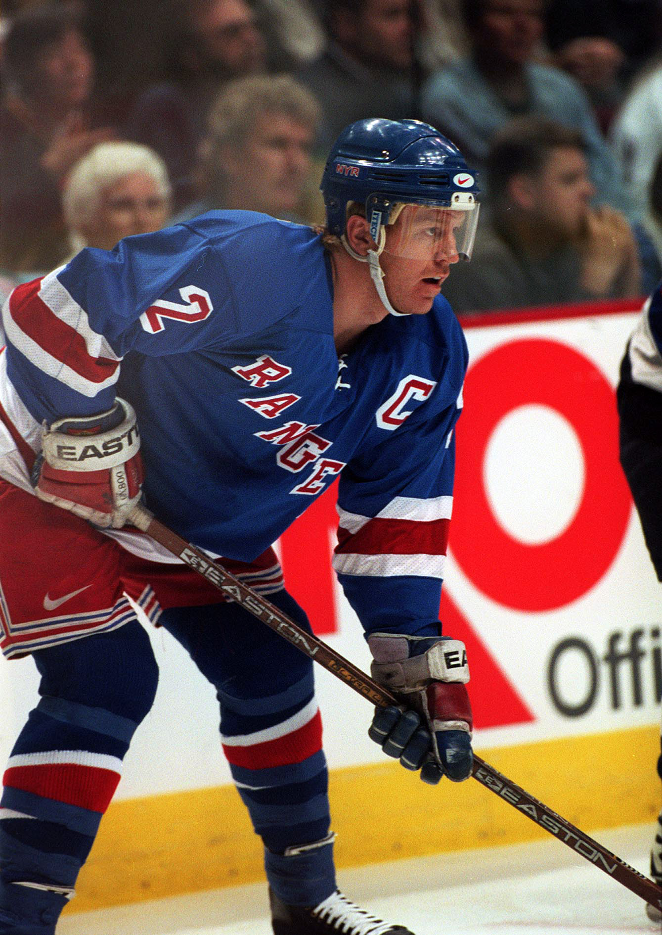 Brian Leetch, captain of the NHL's New York Rangers, during a game in Vancouver, BC.